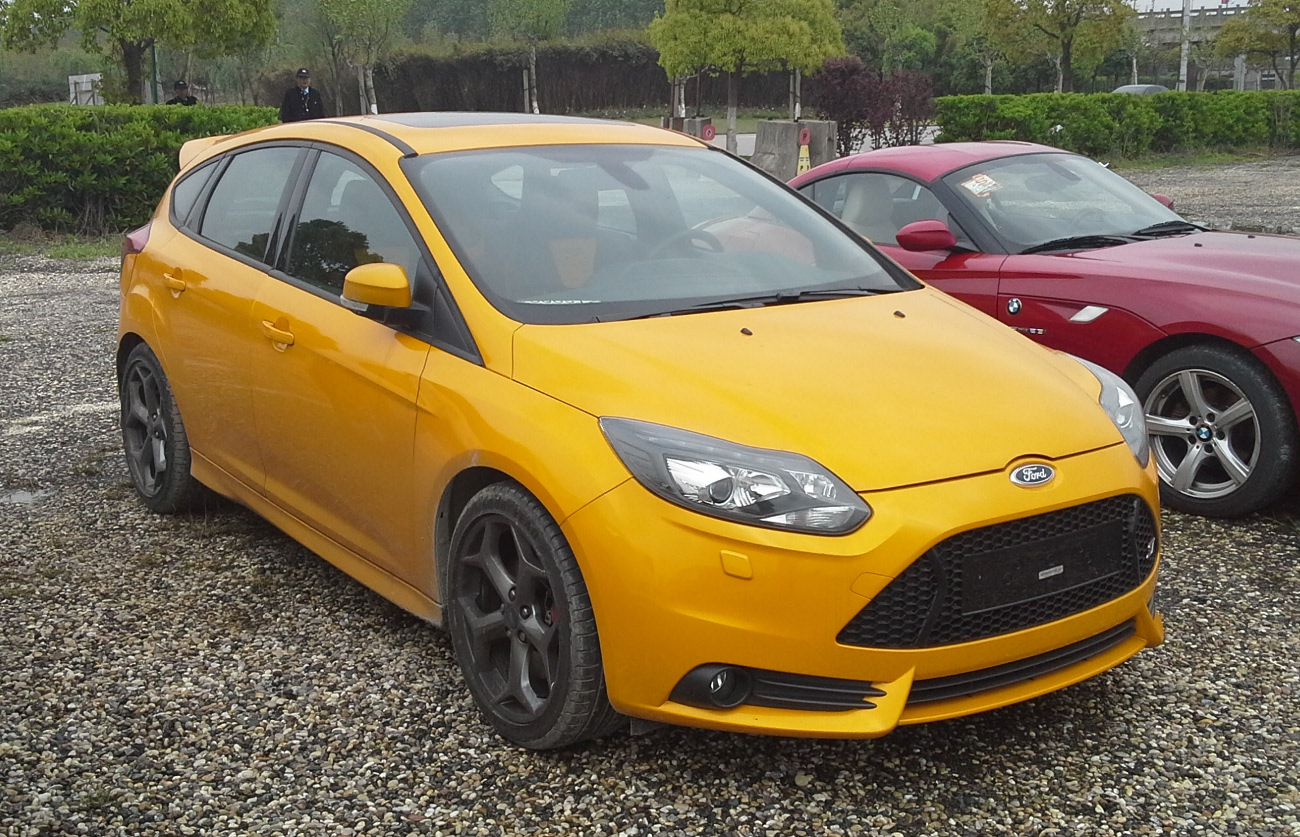 Ford Focus III hatch ST photographed in Anting, Shanghai municipality, China.